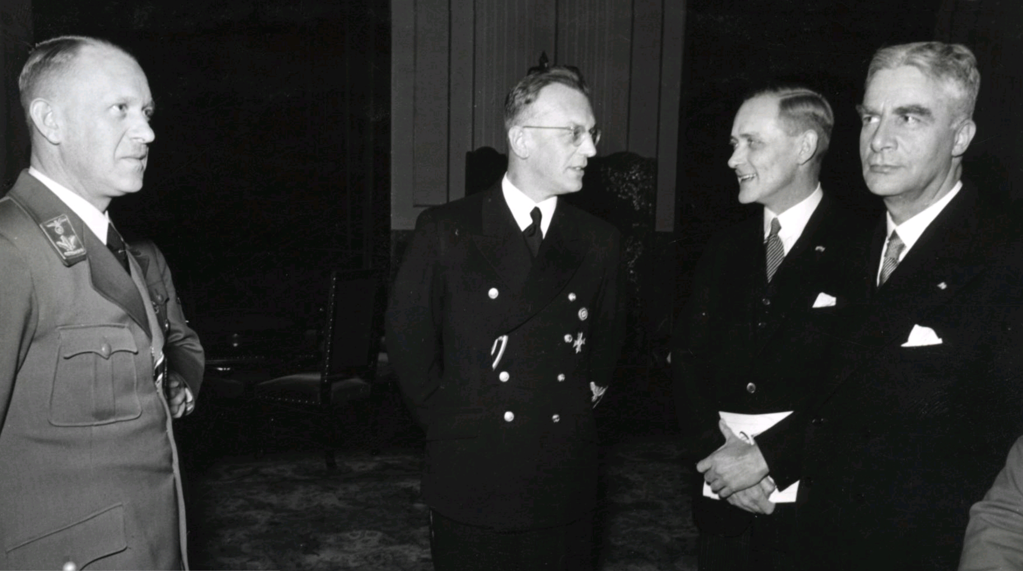 From left to right: Oberdienstleiter Martin Seidel (NSDAP), Rijkscommissaris Dr. Seyss-Inquart, Professor Snijder and Mayor E.J. Voûte, visiting the German "Opernhaus", Stadsschouwburg Amsterdam (Nederland) March 1941